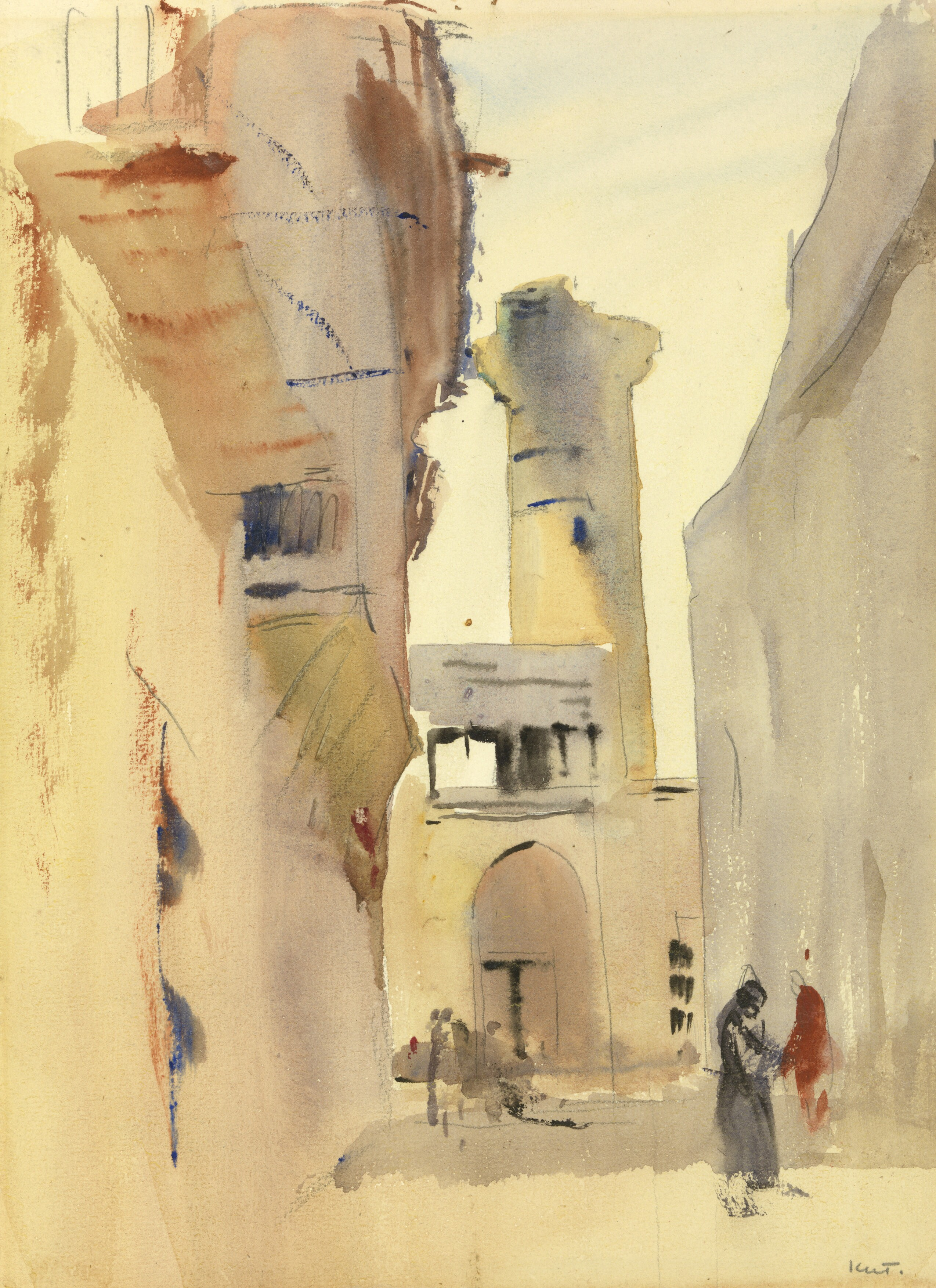 Kut Town image: a view along a narrow street in the centre of Kut, with a few figures standing alongside the tall walls of the surrounding buildings. The street leads towards a minaret-style tower, which rises up in the background.